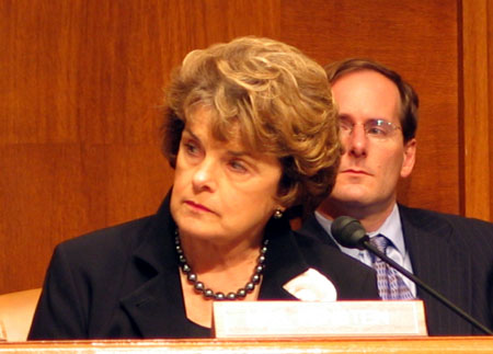 Senator Feinstein attends a meeting of the Senate Judiciary Subcommittee on Terrorism, Technology and Homeland Security.